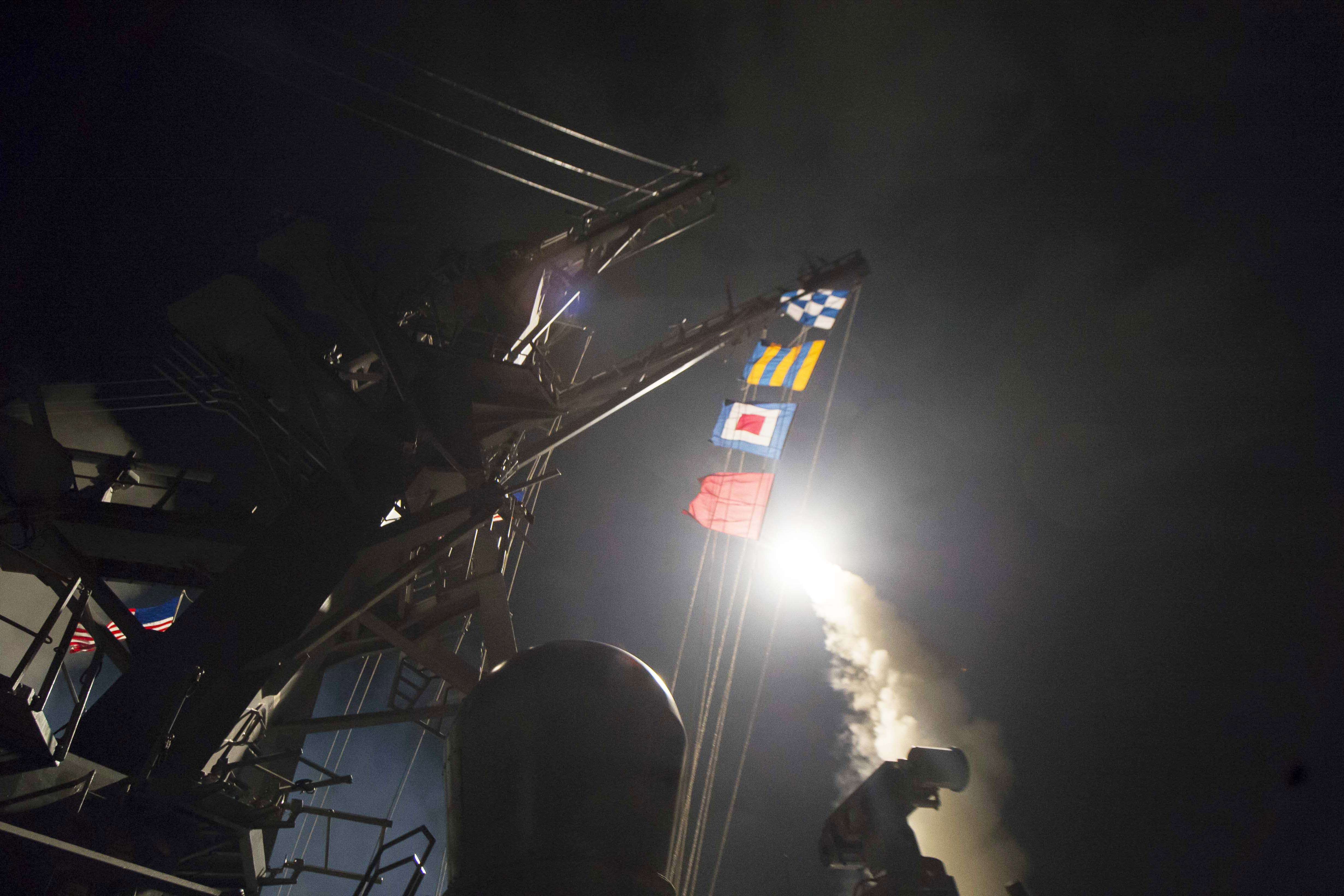 170407-N-FQ994-031 MEDITERRANEAN SEA (April 7, 2017) USS Ross (DDG 71) fires a tomahawk land attack missile April 7, 2017. USS Ross, an Arleigh Burke-class guided-missile destroyer, forward-deployed to Rota, Spain, is conducting naval operations in the U.S. 6th Fleet area of operations in support of U.S. national security interests in Europe and Africa. (U.S. Navy photo by Mass Communication Specialist 3rd Class Robert S. Price/Released)